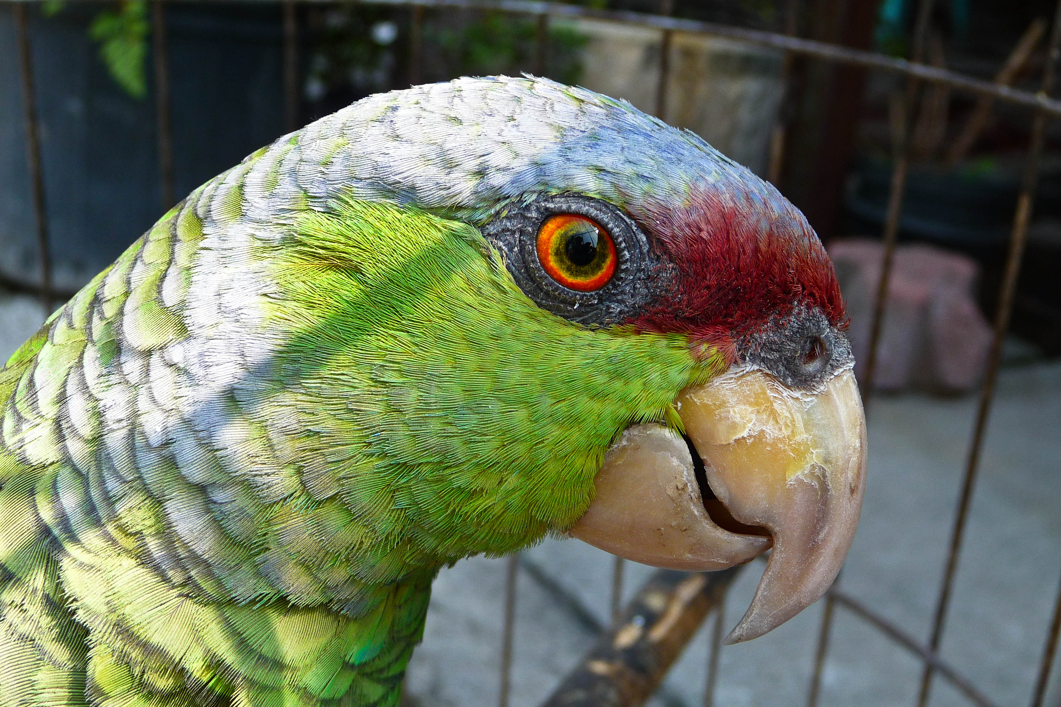 A pet Lilac-crowned Amazon; head and neck.